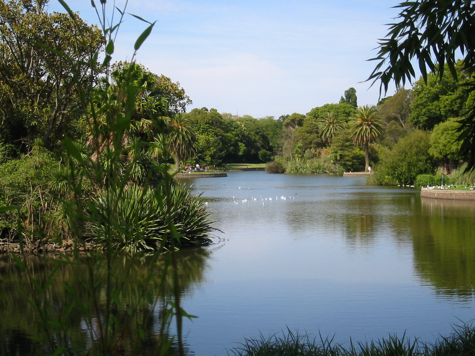 Looking across the water